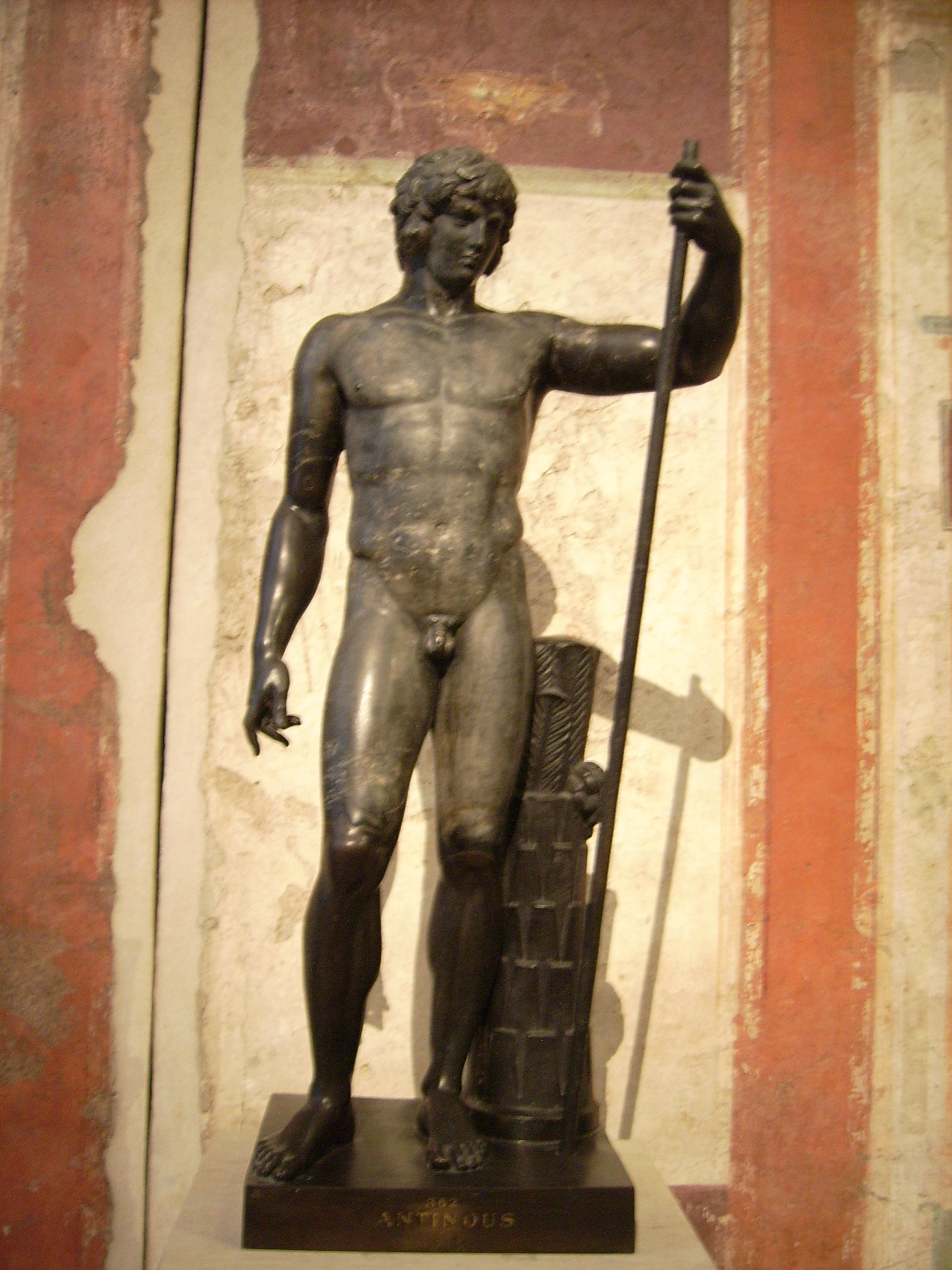 (Berlin, Altes Museum): Antinous as Dionysos, 130-138 AC.